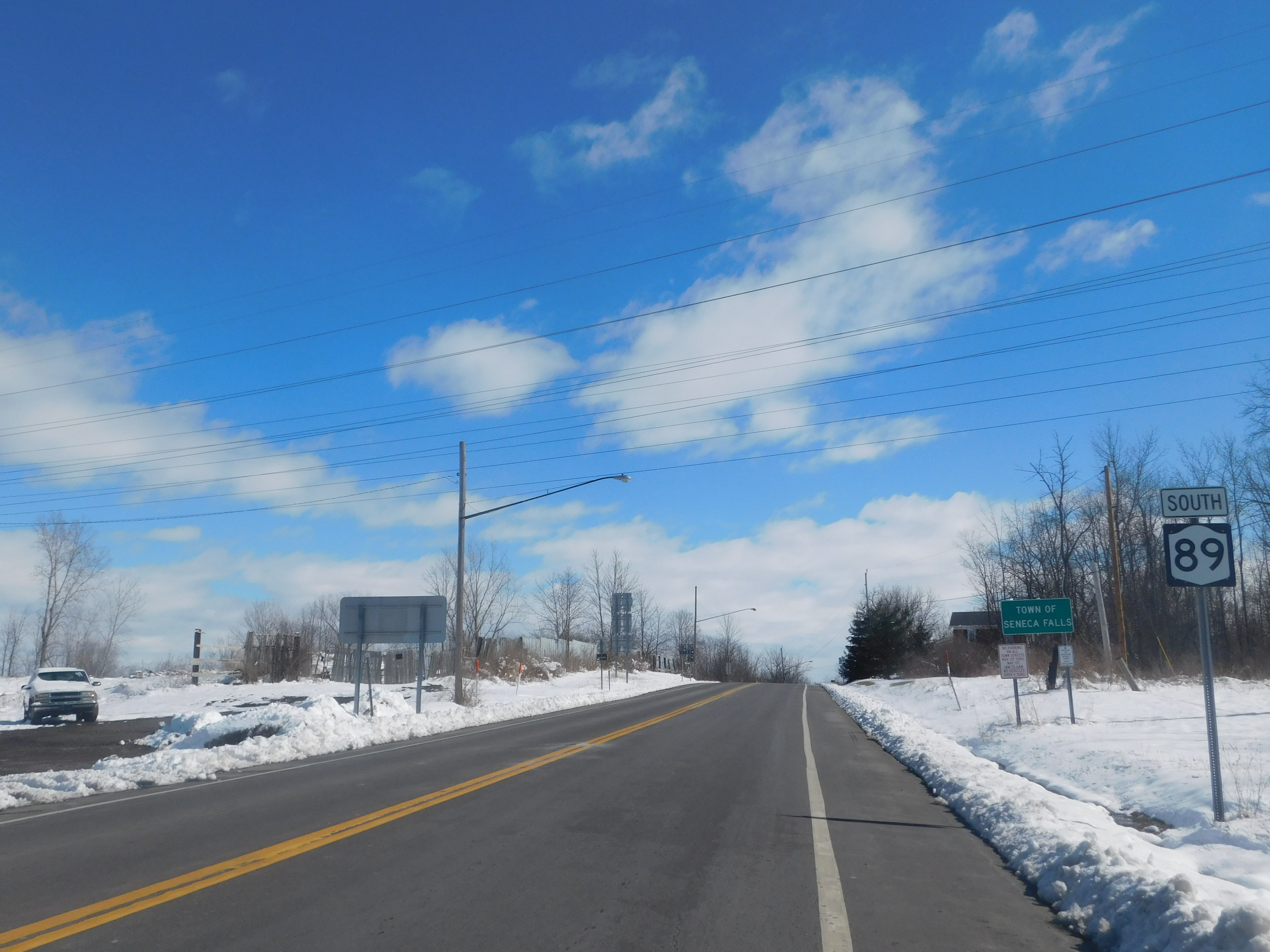 NY 89 south from US 20 and NY 5.